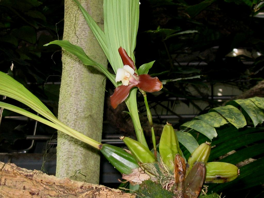 A work released per the GNU Free Documentation License by: ALBERTO SALGUERO - Madrid - Spain.